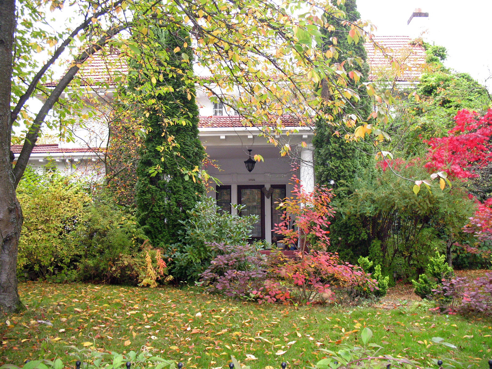 National Register of Historic Places listings in Northeast Portland, Oregon. John & Ellen Bowman House, 1719 NE Knott St, Portland, OR. Photographed October 25, 2009 from the north side of NE Knott St. between NE 17th and NE 18th St.